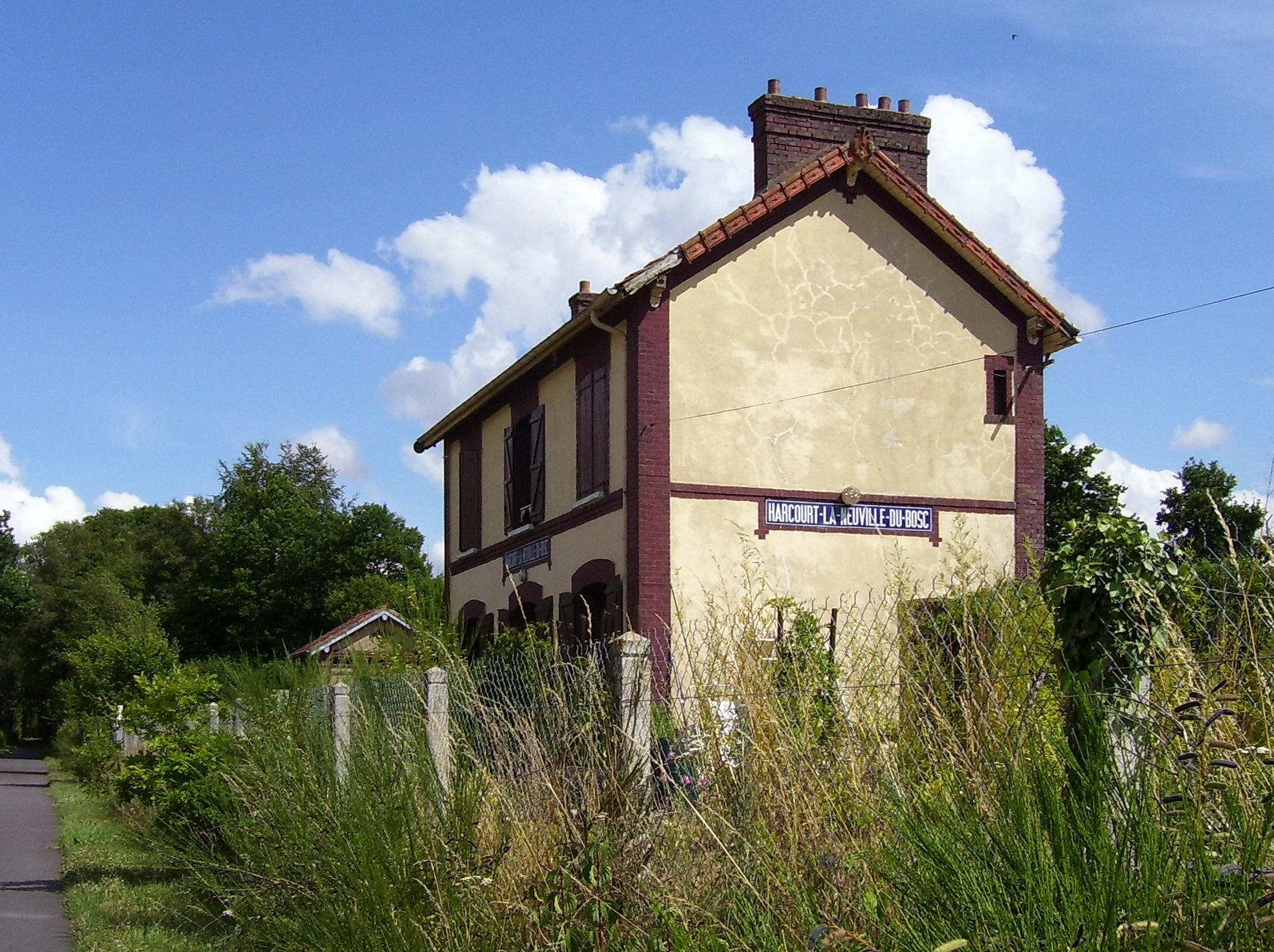 Disused trainstation of Harcourt - La Neuville-du-Bosc in the departement Eure, Normandie, France.